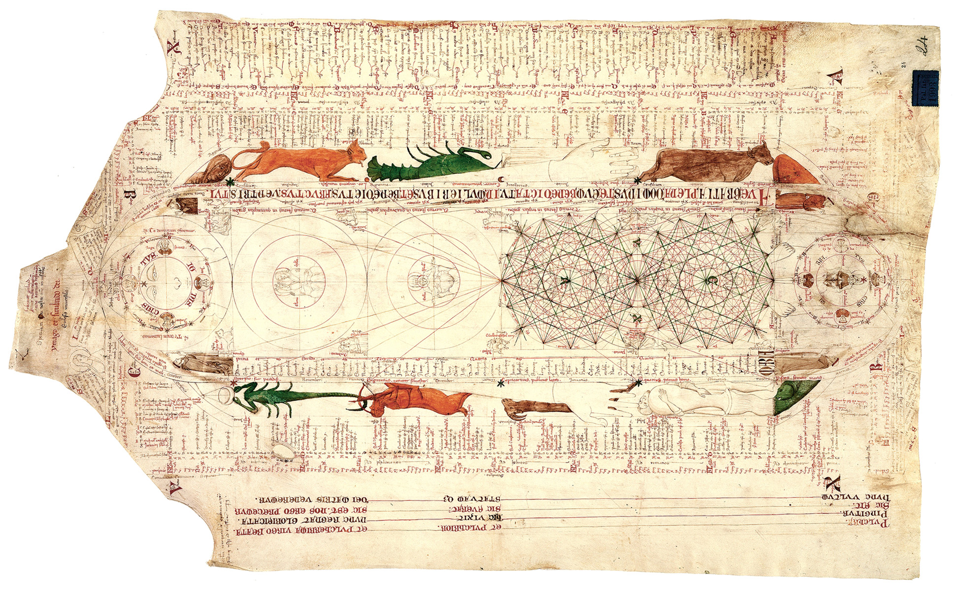 Diagram with Zodiac Symbols by Opicinus de Canistris,, Avignon, France, 1335–50